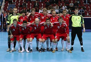 Russia national under-21 futsal team. UEFA Under 21 Futsal Tournament 2008. 11.12.2008